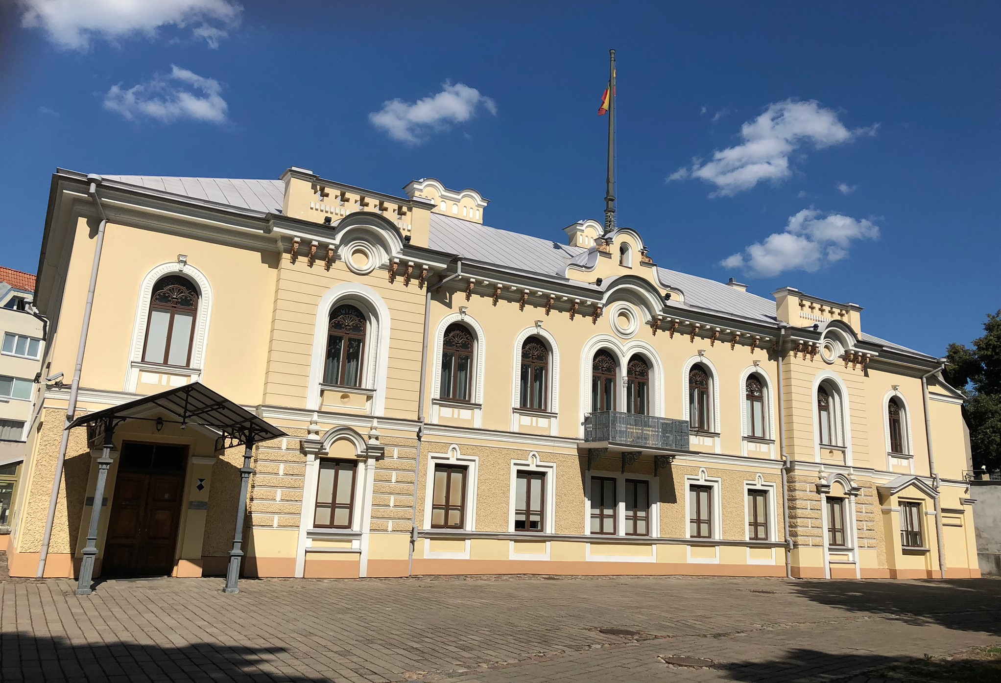 Presidential Palace in Kaunas front facade with the Lithuanian Tricolor.